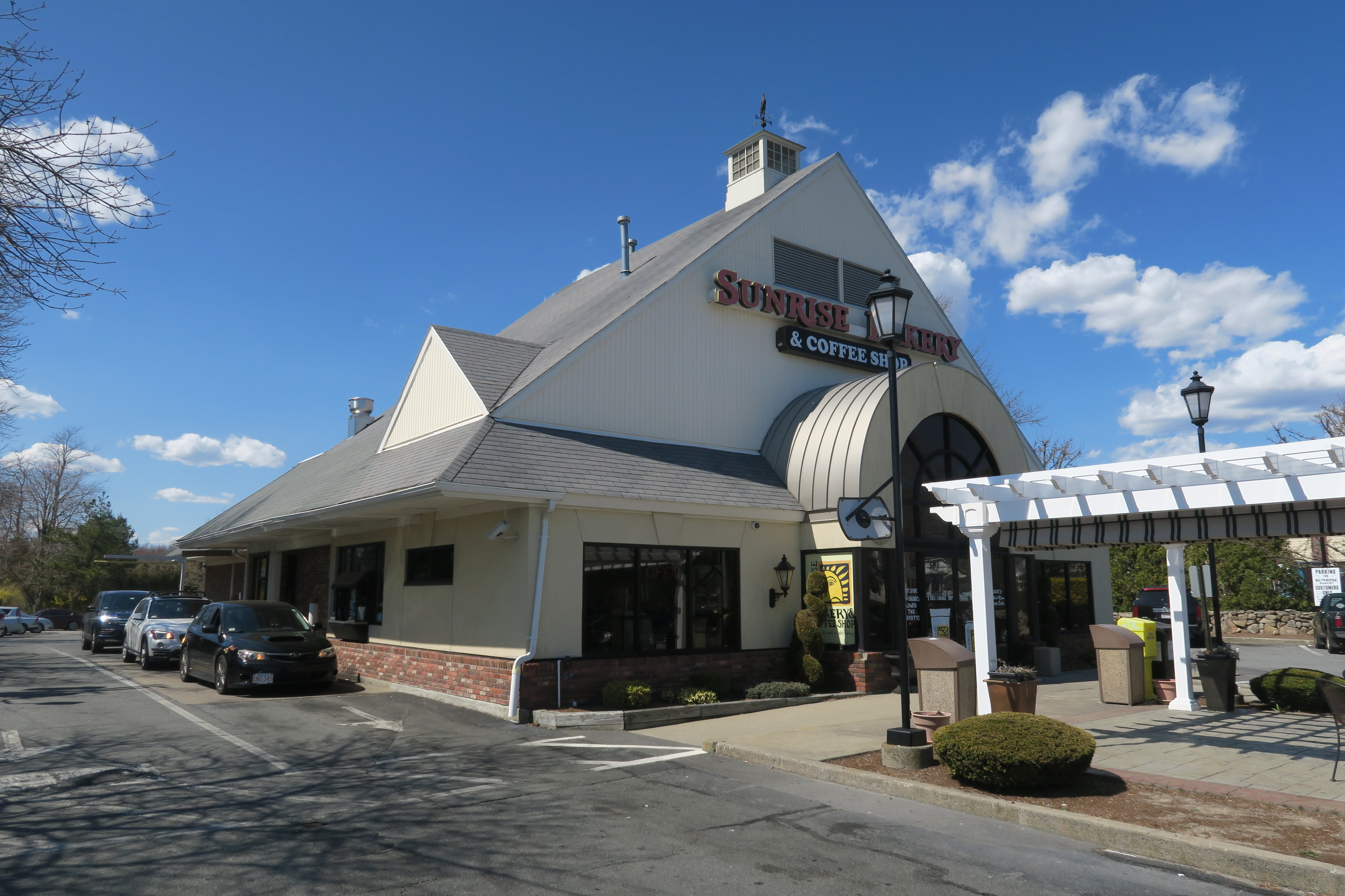 Sunrise Bakery, Bliss Corner Massachusetts